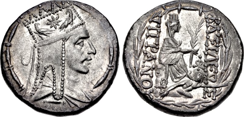 Coin of Tigranes II the Great, Antioch mint.